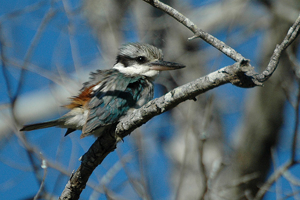 Female Red-backed Kingfisher (Todiramphus pyrrhopygia)